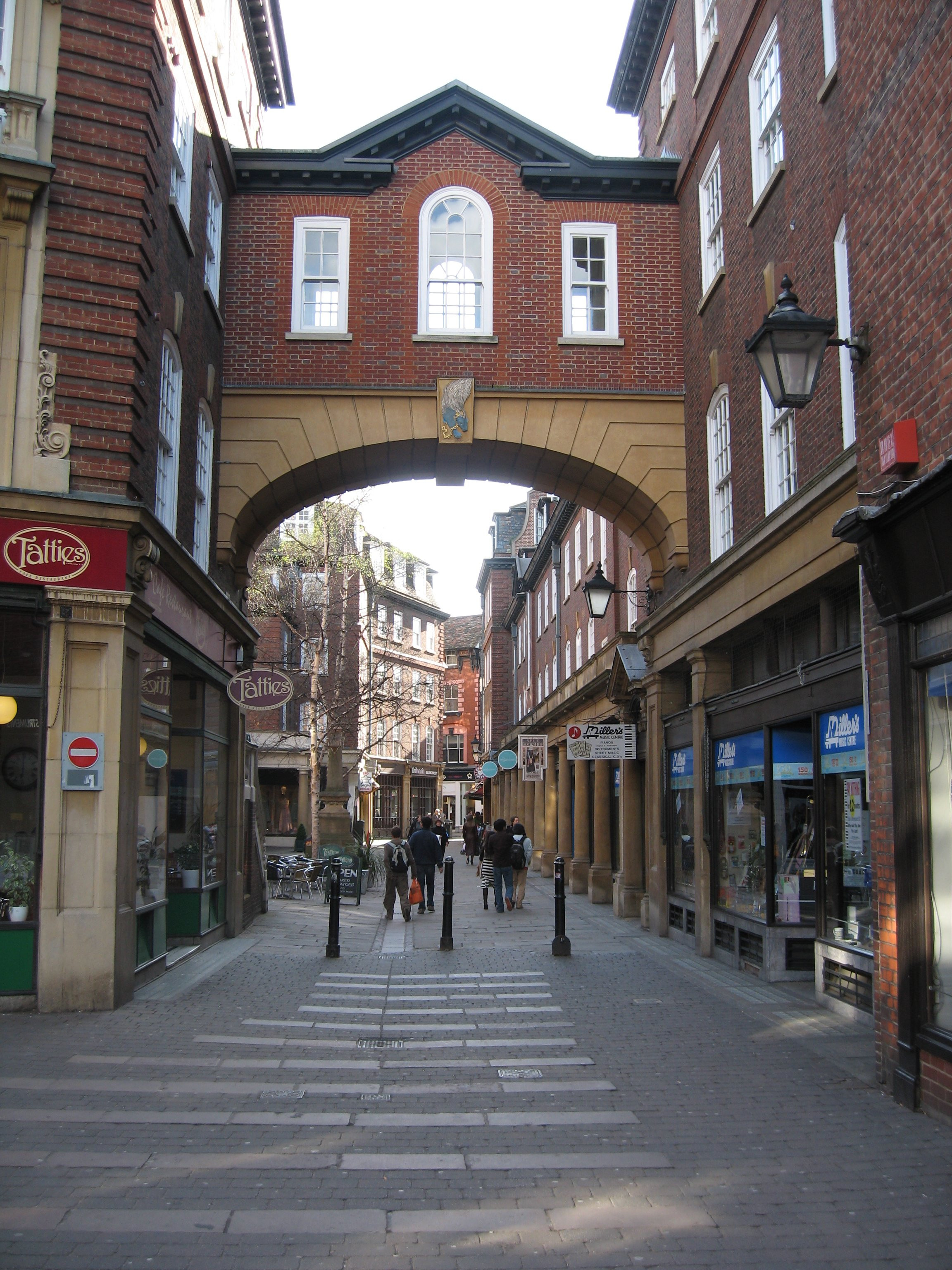 Looking from King Street onto Sussex Street, Cambridge.